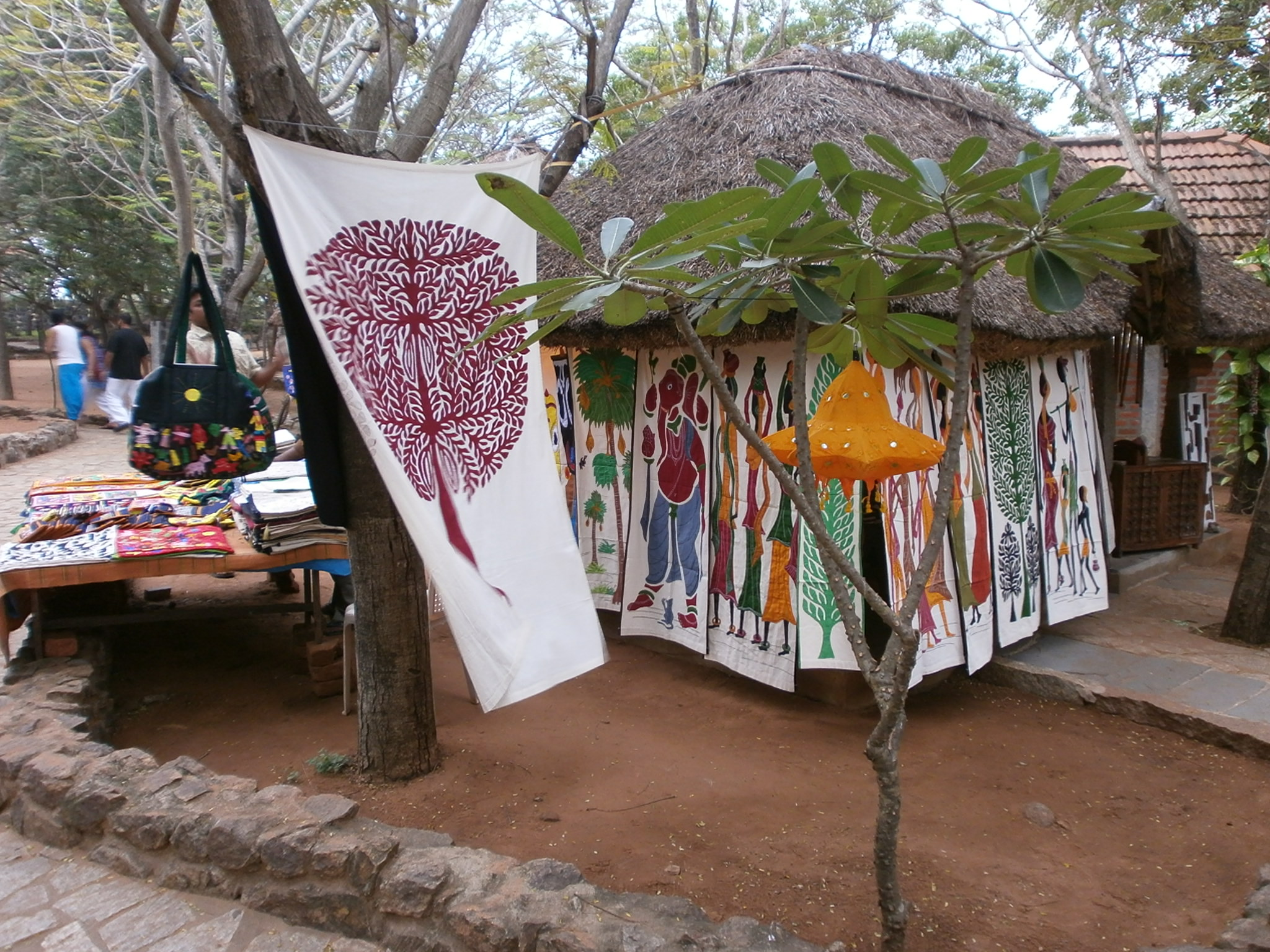 Dakshina-Chitra-Craft-Items-for-sale